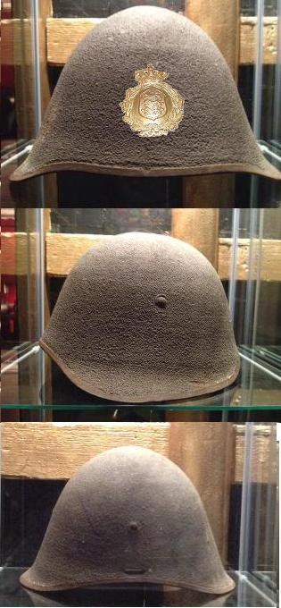 An example of a WW2 era Danish M-23 helmet. This helmet features an Army emblem on the front.